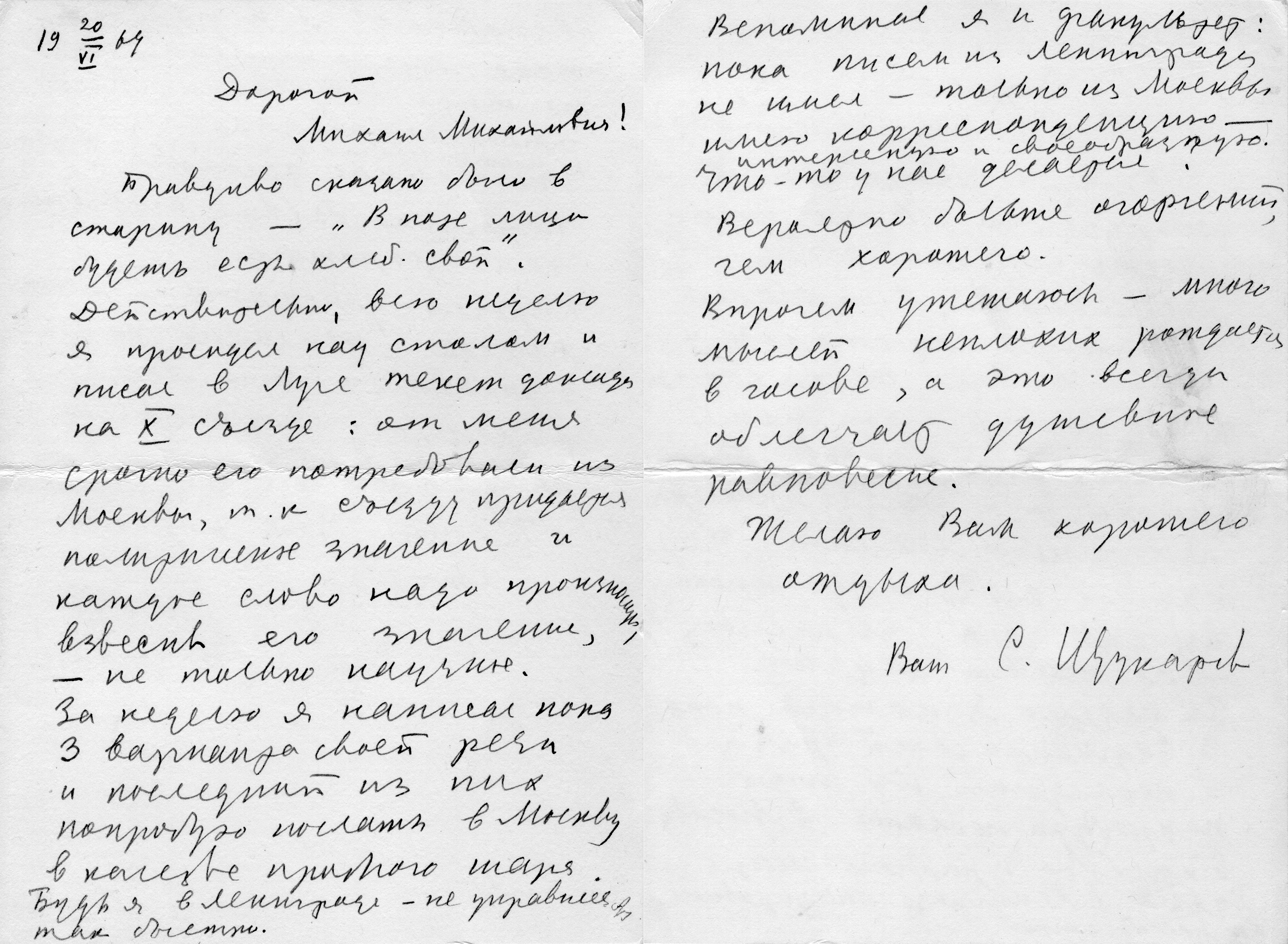 Letter sent by Professor S. Shchukarev to Professor S. Schultz. 1969